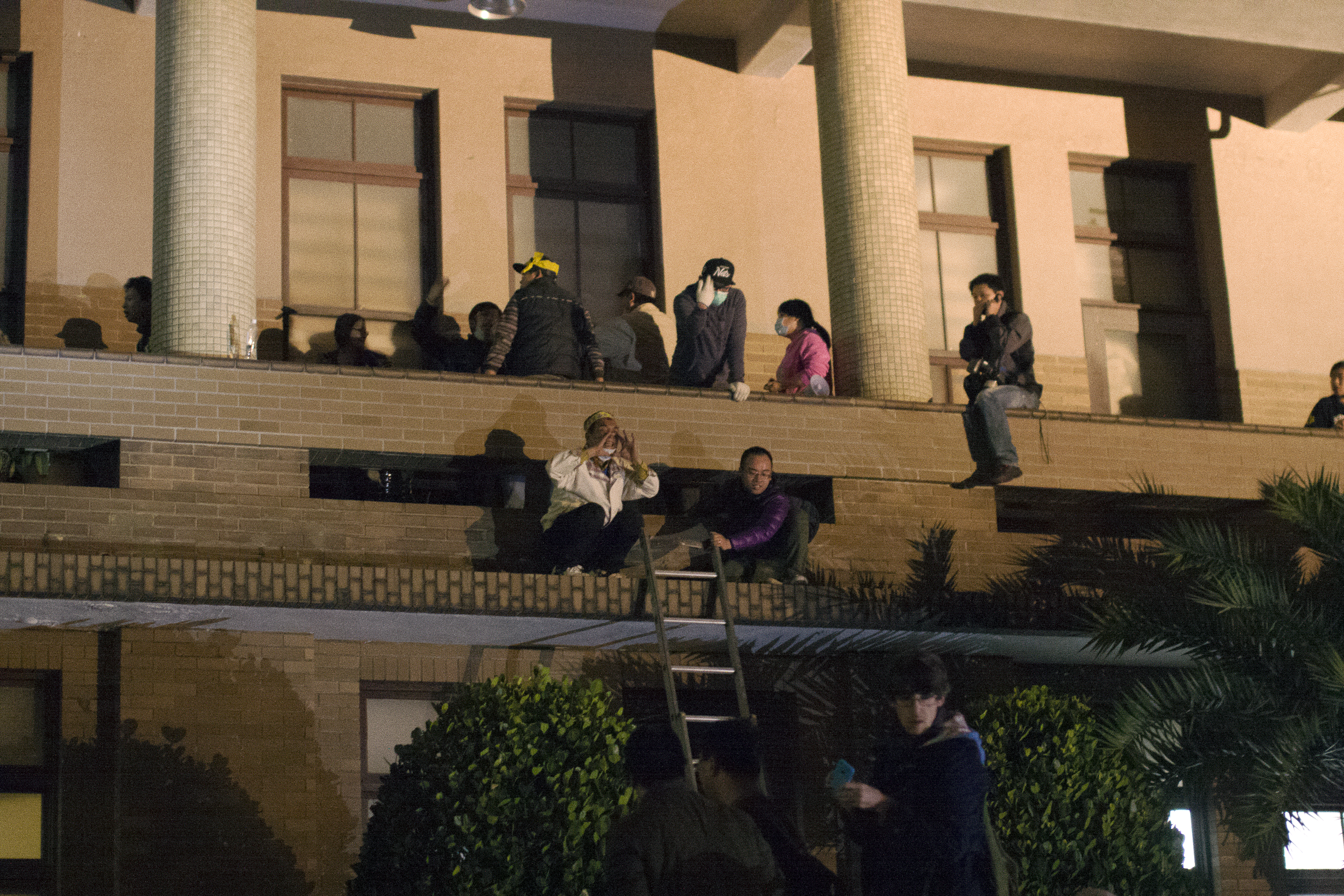 Determined protestors scale the walls of the ROC Executive Yuan (行政院), entering through a second floor window.